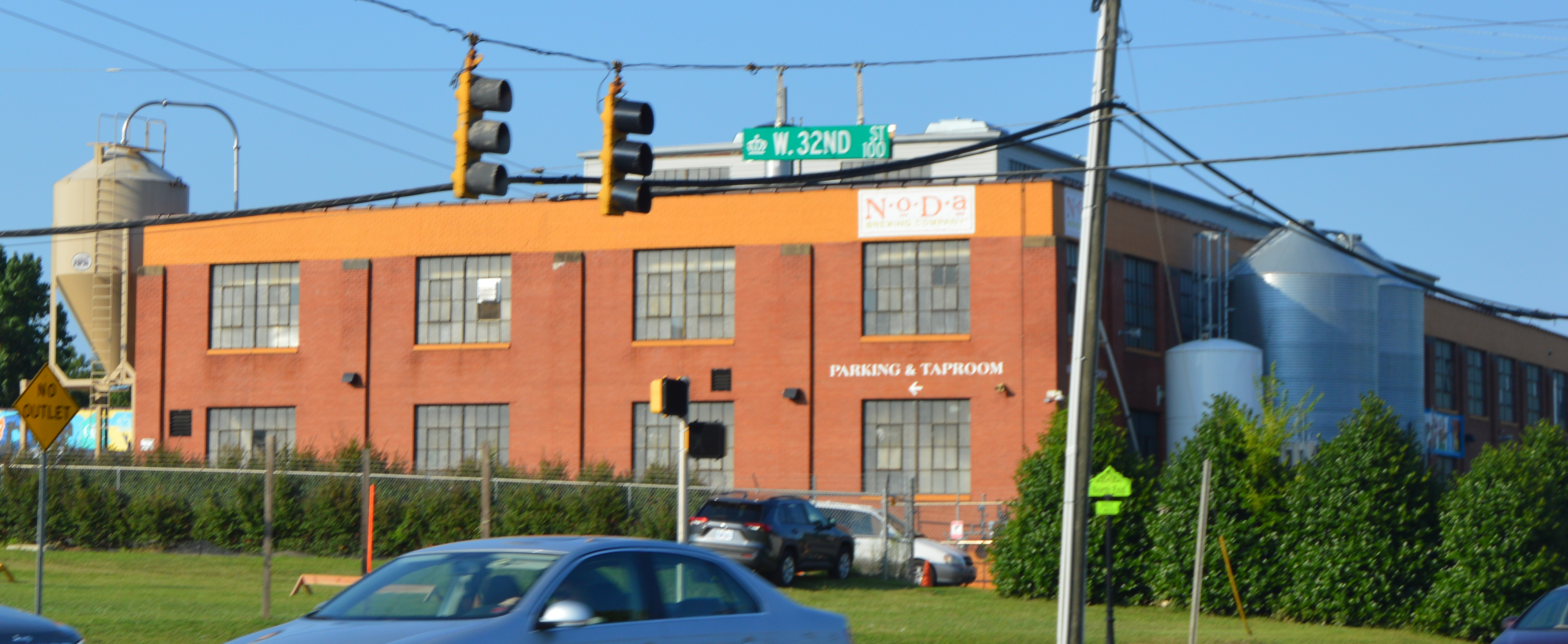 Southern side and front of the former Speas Vinegar Company, located at 2921 N. Tryon Street (U.S. Route 29/North Carolina Highway 49) in Charlotte, North Carolina, United States. Built in 1939, it is listed on the National Register of Historic Places.